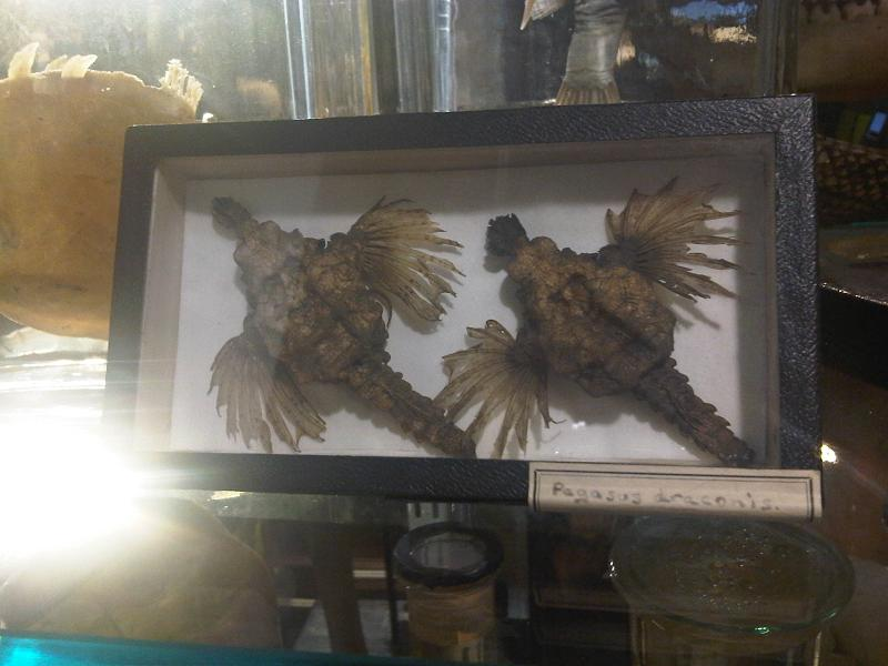 Little dragonfish or Short dragonfish, also known as the Pegasus Sea Moth (Eurypegasus draconis) in Grant Museum of Zoology, London, England.